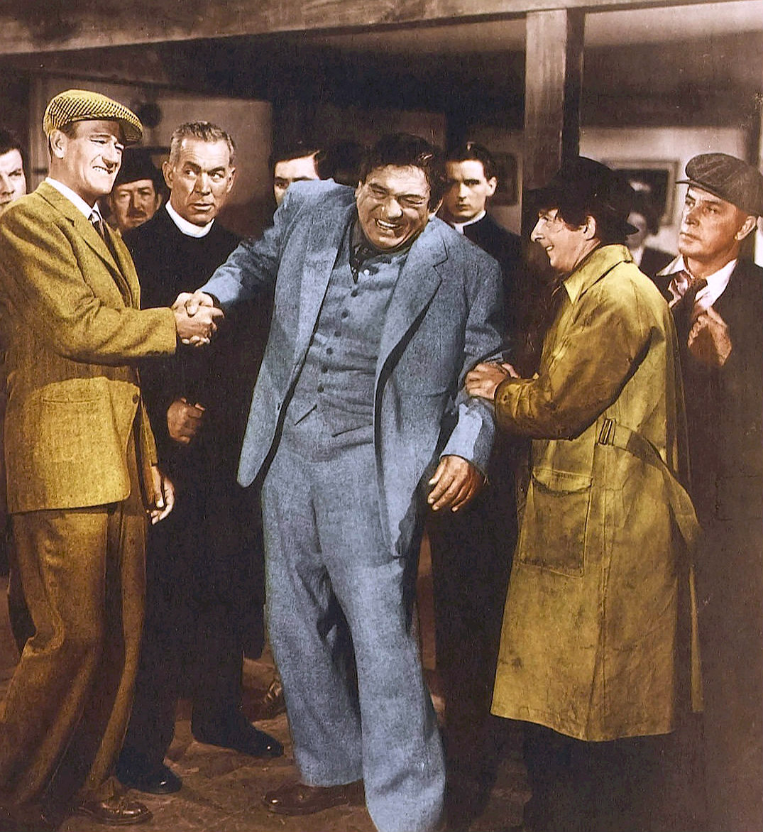 Photo from ‘’The Quiet Man’’.